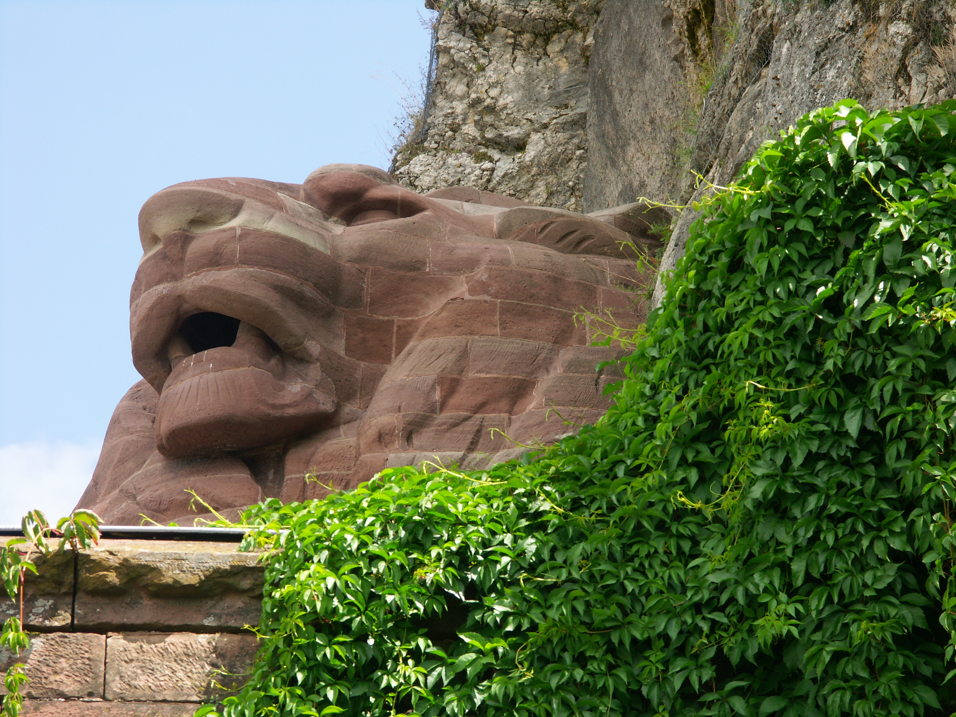 Head of the Lion of Belfort.